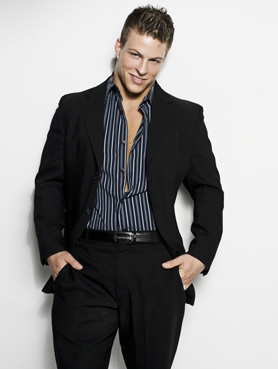 Stefan Gatt modeling for Rick Day